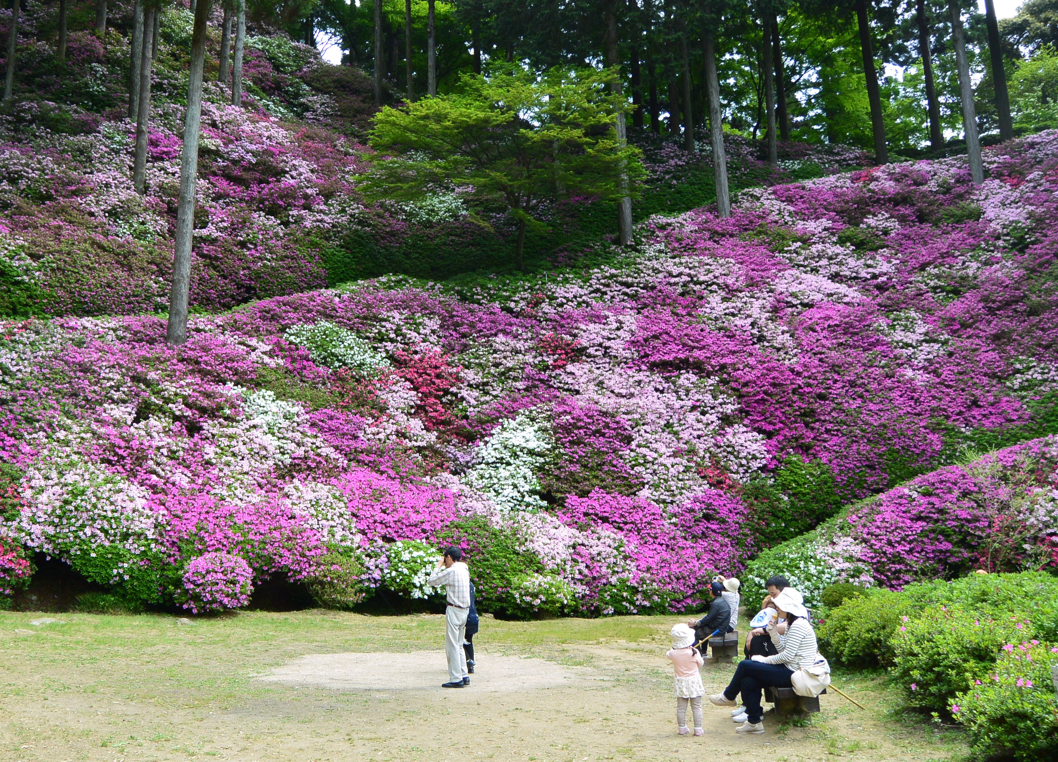 Rhododendron garden of Daokozenji Saga pref Japan